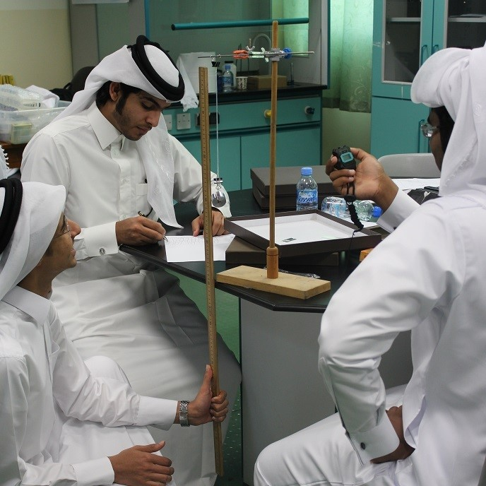 AL-Bairaq